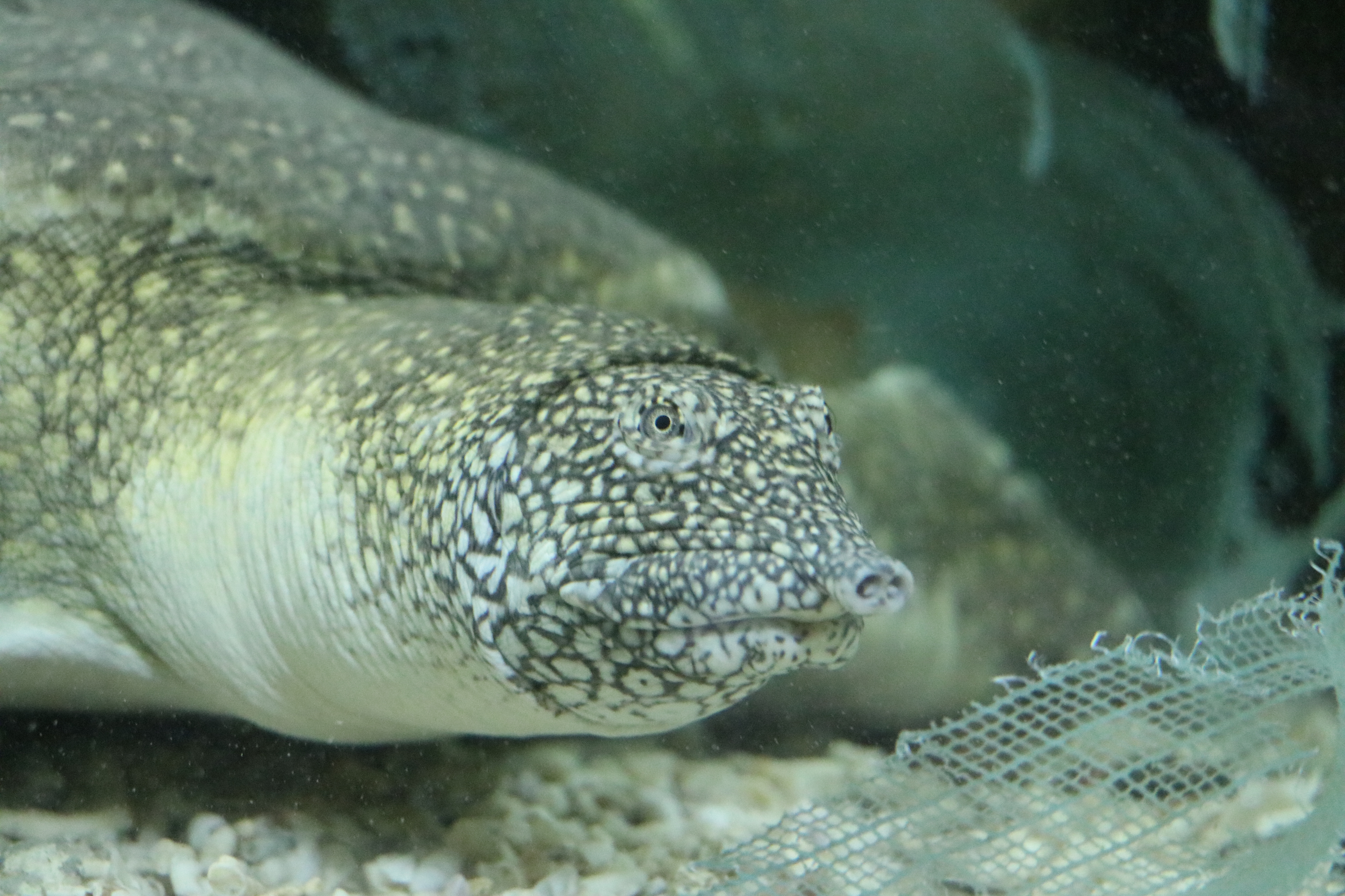 A captive turtle at an Egyptian aquarium